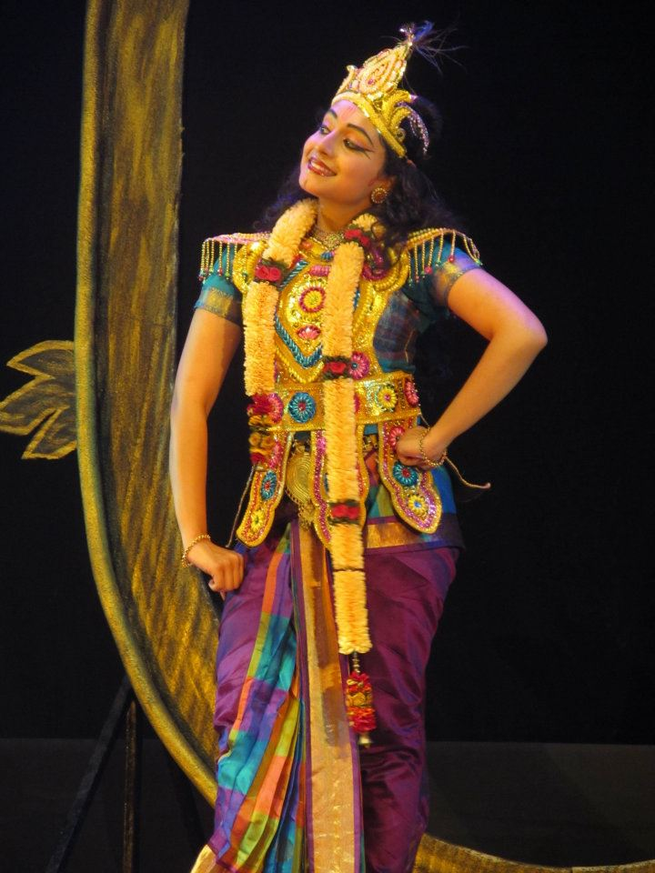 Prateeksha Kashi playing Lord Krishna in "PARAMPARA"